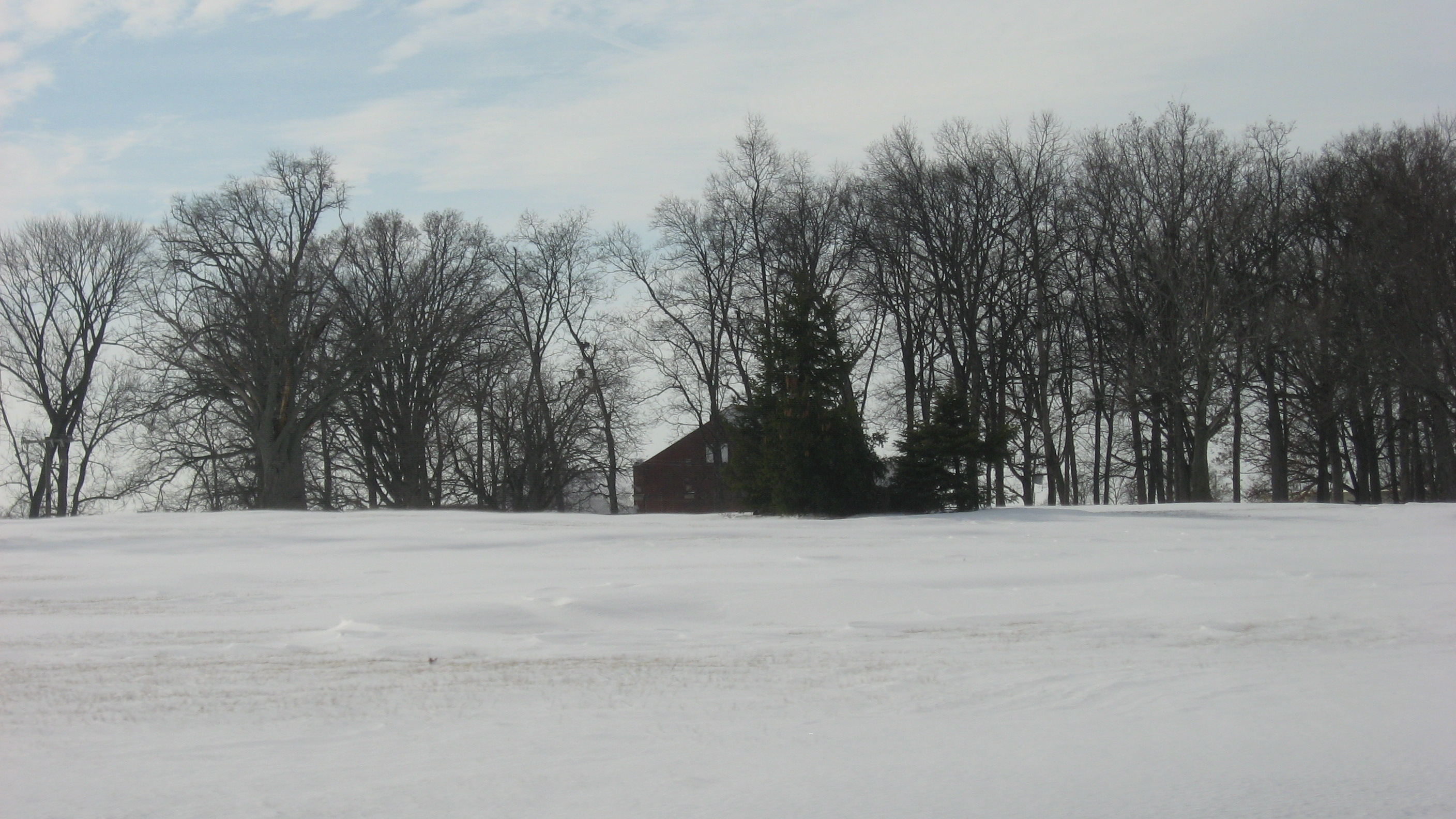 Overview of the grounds (and one building) at the Irene Byron Tuberculosis Sanatorium, located at 12371-12407 Lima Road (State Road 3) north of Fort Wayne in Perry Township, Allen County, Indiana, United States. The sanatorium was once listed on the National Register of Historic Places, but it was removed from the Register after most of the buildings were destroyed.